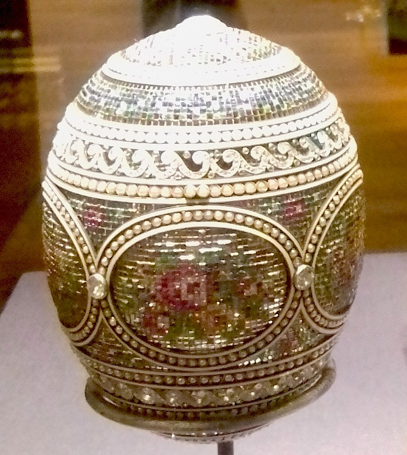 Photo of the 1914 Mosaic egg by Fabergé taken at the exhibition "Russia, Royalty & the Romanovs", The Queen's Gallery, Palace of Holyroodhouse, Edinburgh, Scotland.